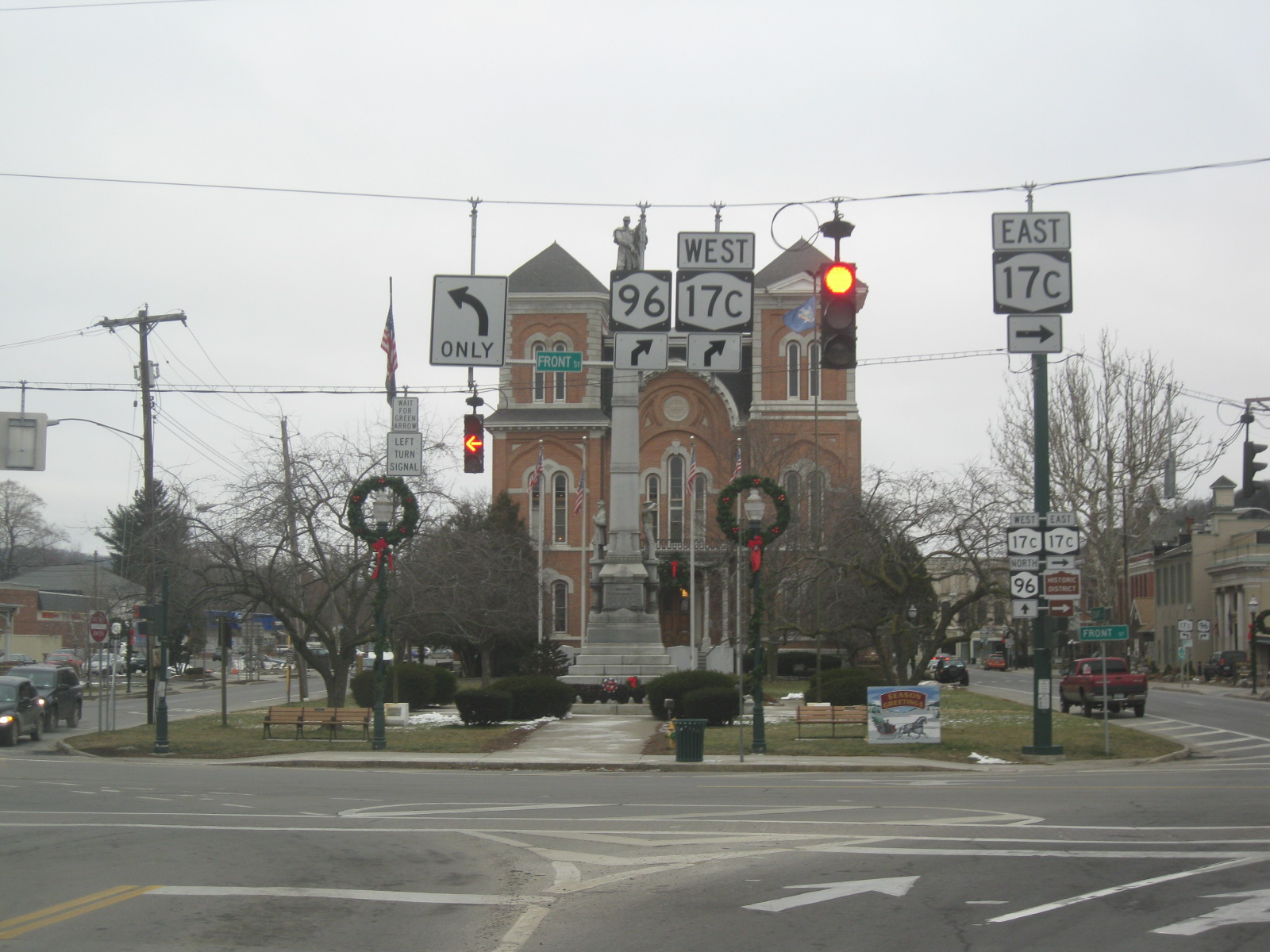 A split on New York State Route 96 in the village of Owego. NY 96 north follows Court Street (right) while NY 96 south uses Park Street (left). Both highways are also part of New York State Route 17C. Straight ahead is the Tioga County Courthouse.